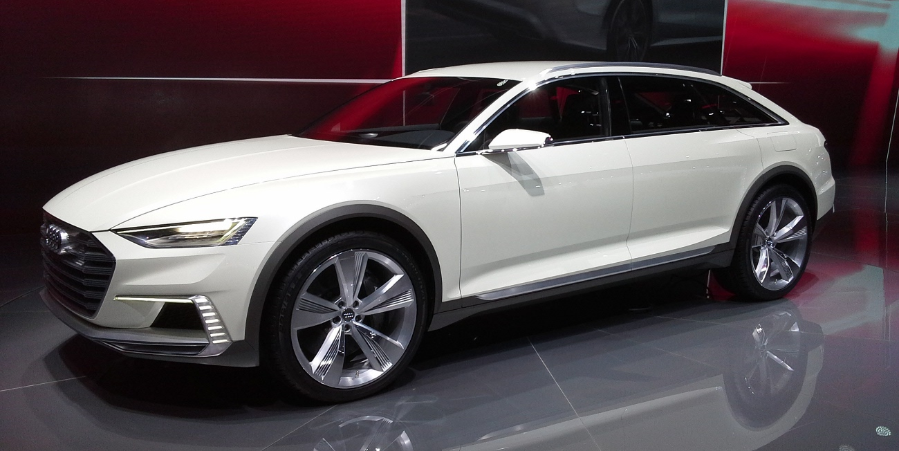 Audi Prologue Allroad Concept photographed at the Auto Shanghai 2015, Shanghai, China.